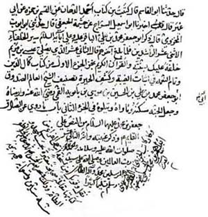 The Kamāl al-Dīn wa Tamām al-Niʻmah manuscript by Abu Ja'far Muhammad ibn 'Ali ibn Babawaih al-Qummi (Shaykh Saduq) (Shia traditionist) which is about Imam Zaman including questions and answers about the Occultation to the non-believers.